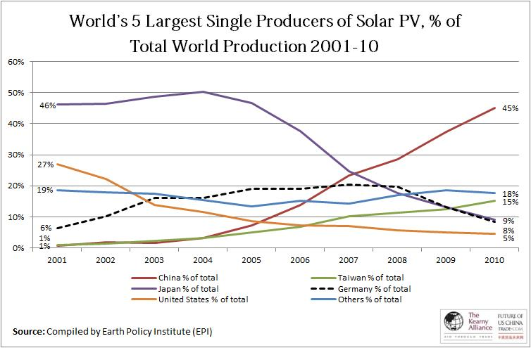 Data on the world's largest solar PV producers including China, Taiwan, US, Japan, Germany solar PV production 2001-2010. China now manufactures almost half of the world’s solar photovoltaics (China and Taiwan together share 60% of the world market). China’s production has been rapidly escalating – in 2001 it had less than 1% of the world market. Data from the Earth Policy Institute.